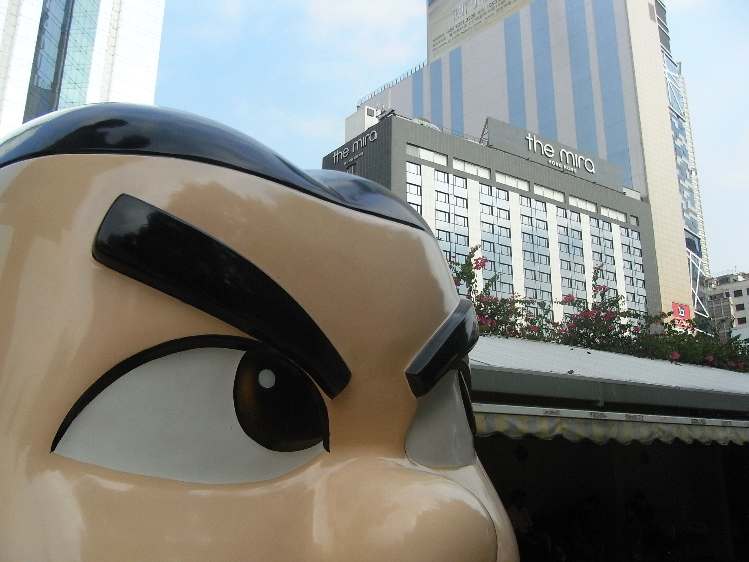 香港漫畫星光大道, Hong Kong Avenue of Comic Stars, Kowloon Park, Nathan Road, Tsim Sha Tsui, Hong Kong